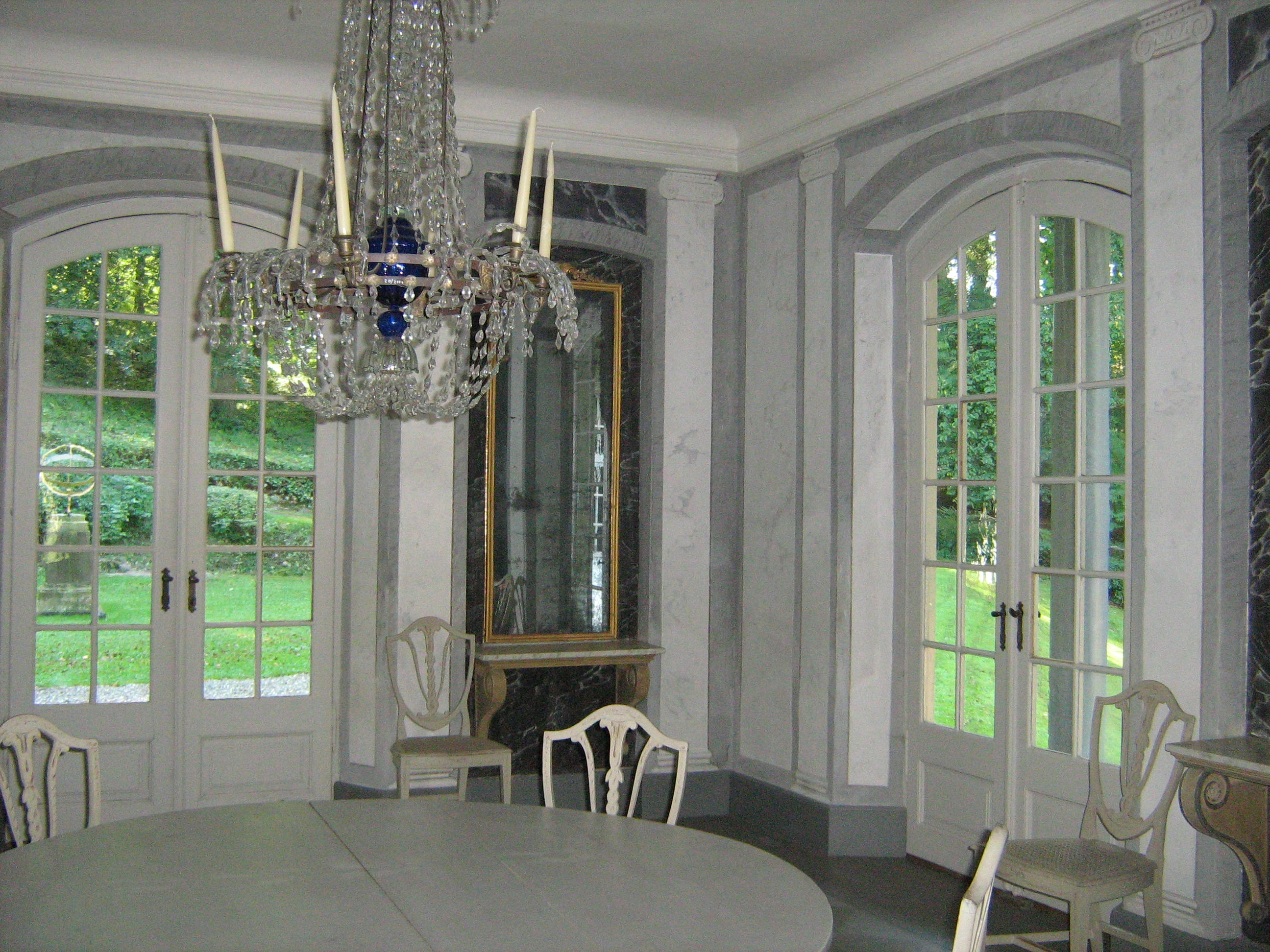 Liselund Gammel Slot, Møn, Denmark: the dining hall